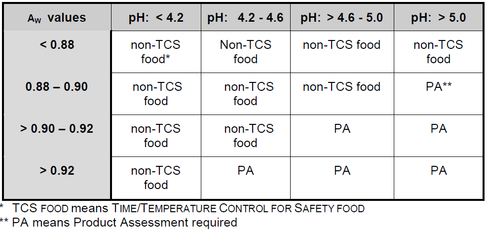 PHF chart produced in the 2013 FDA Food Code.